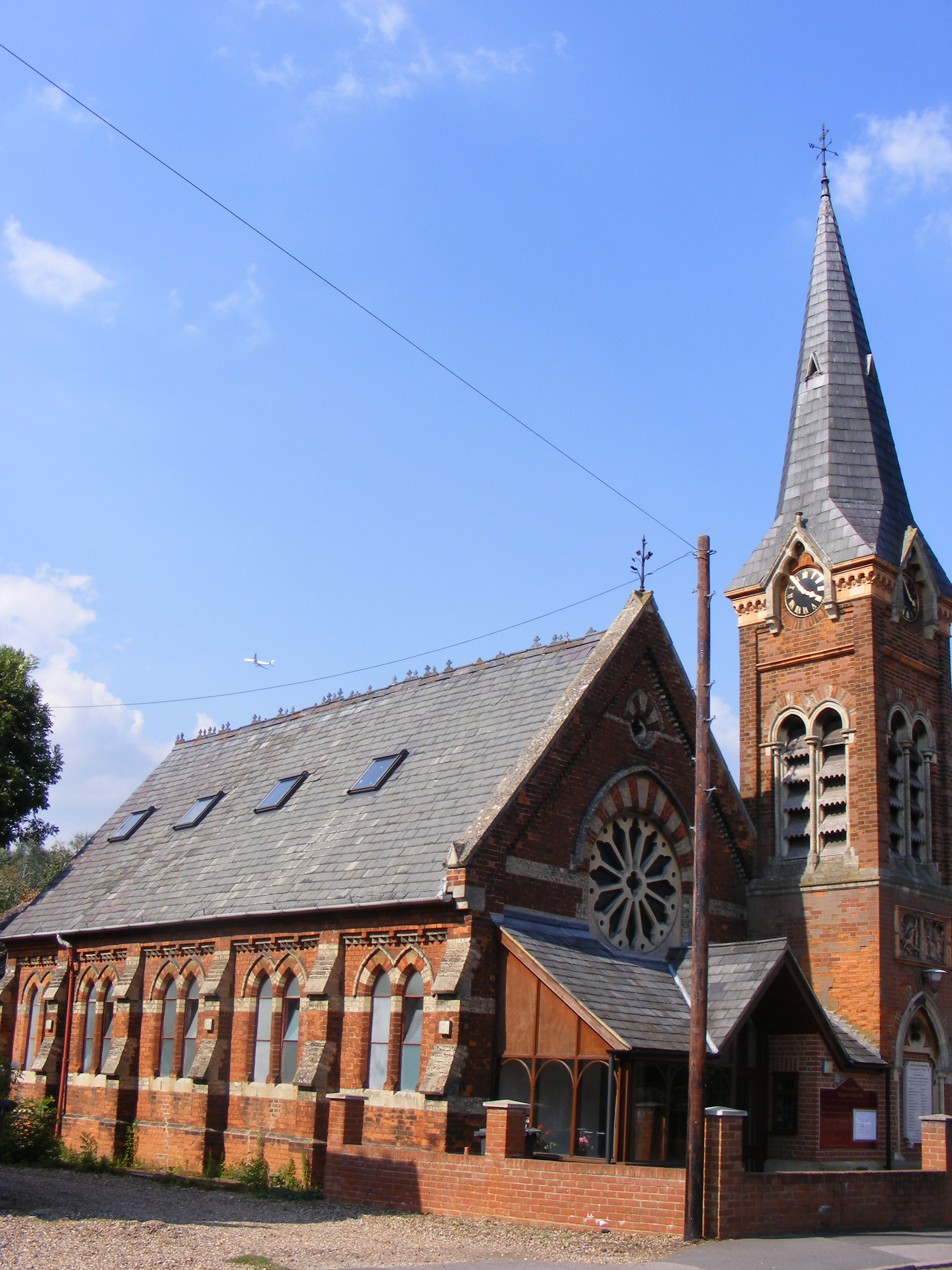 Wraysbury Baptist Chapel, Wraysbury, Berkshire